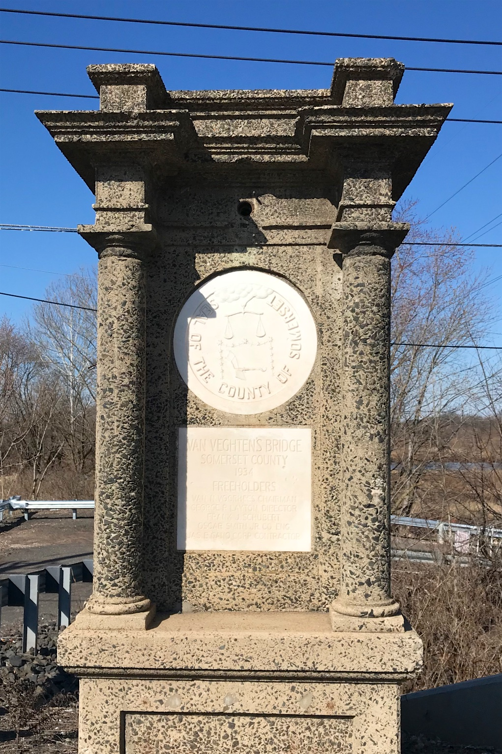 Memorial plaques at the south end of Van Veghten's Bridge over the Raritan River. The top plaque is the seal of the county of Somerset, the bottom is from the 1934 bridge reconstruction.